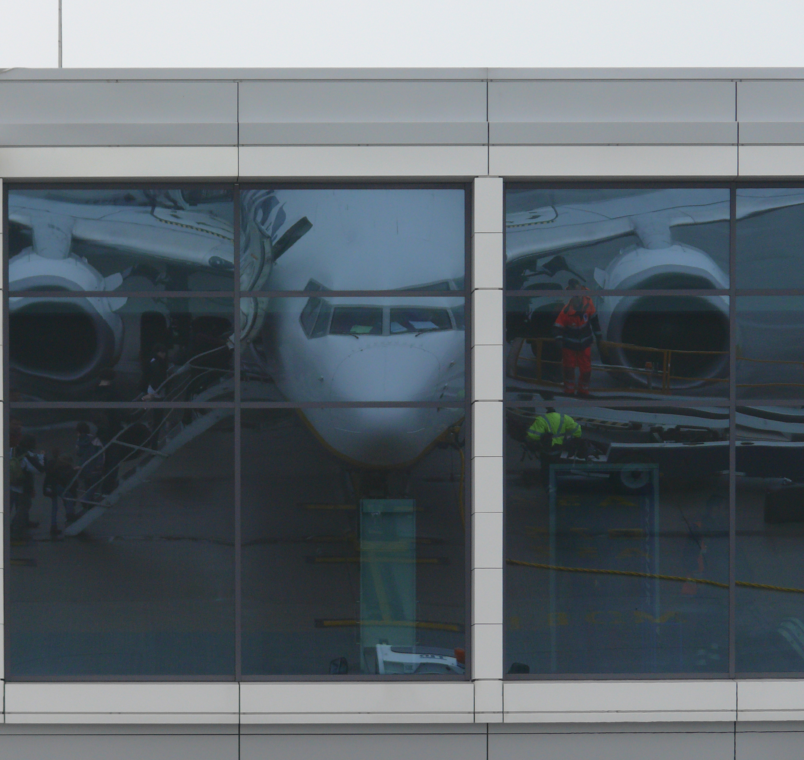 Reflection of Ryanair Boeing 737-800 (Next Generation) EI-DPN at Brussels South Charleroi Airport.